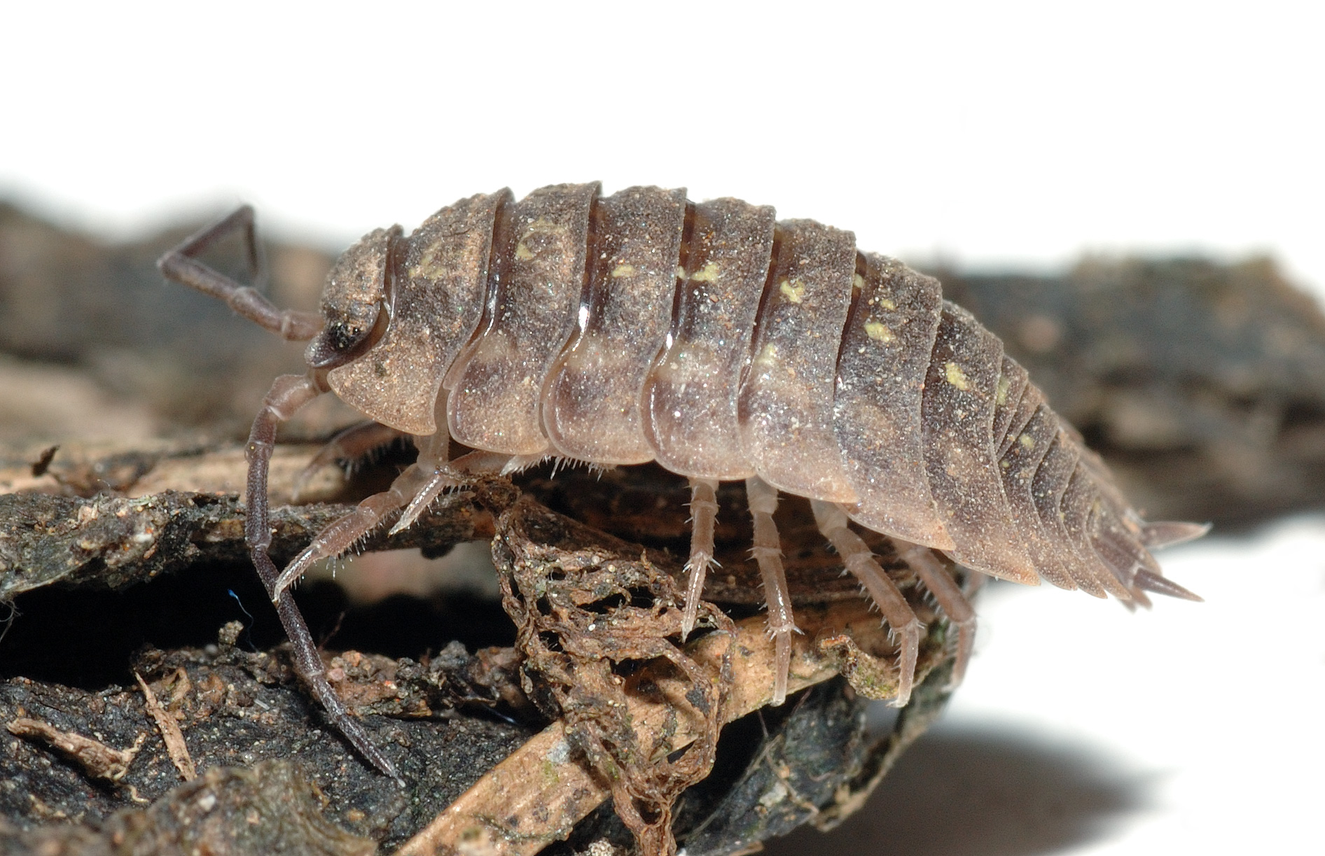 This image shows a 0.4 inch (10 mm) large female Common woodlouse (Oniscus asellus).